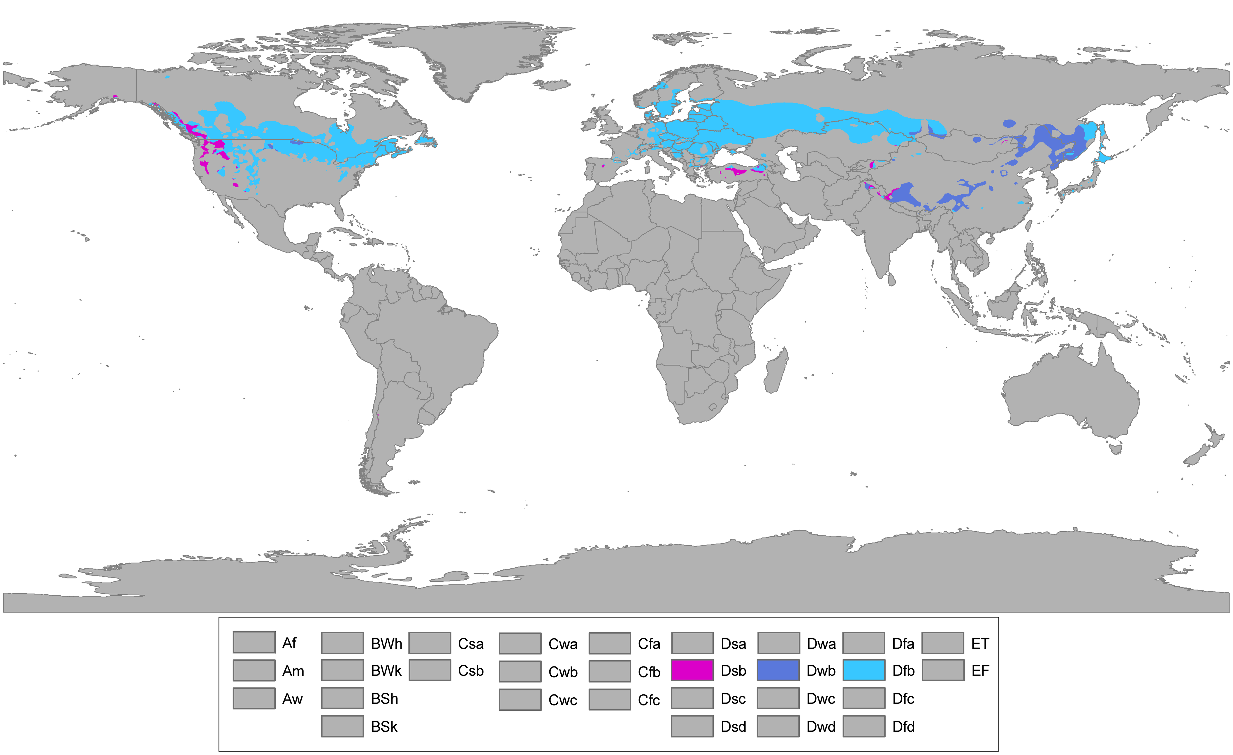 Updated world map of the Köppen-Geiger climate classification. Humid continental climates: Warm summer subtype (Dfb, Dwb, Dsb)